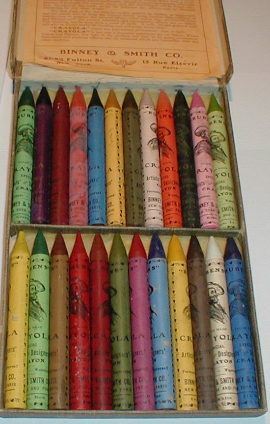 Rubens Crayola No 500 - Inside box with crayons from circa 1904-1912